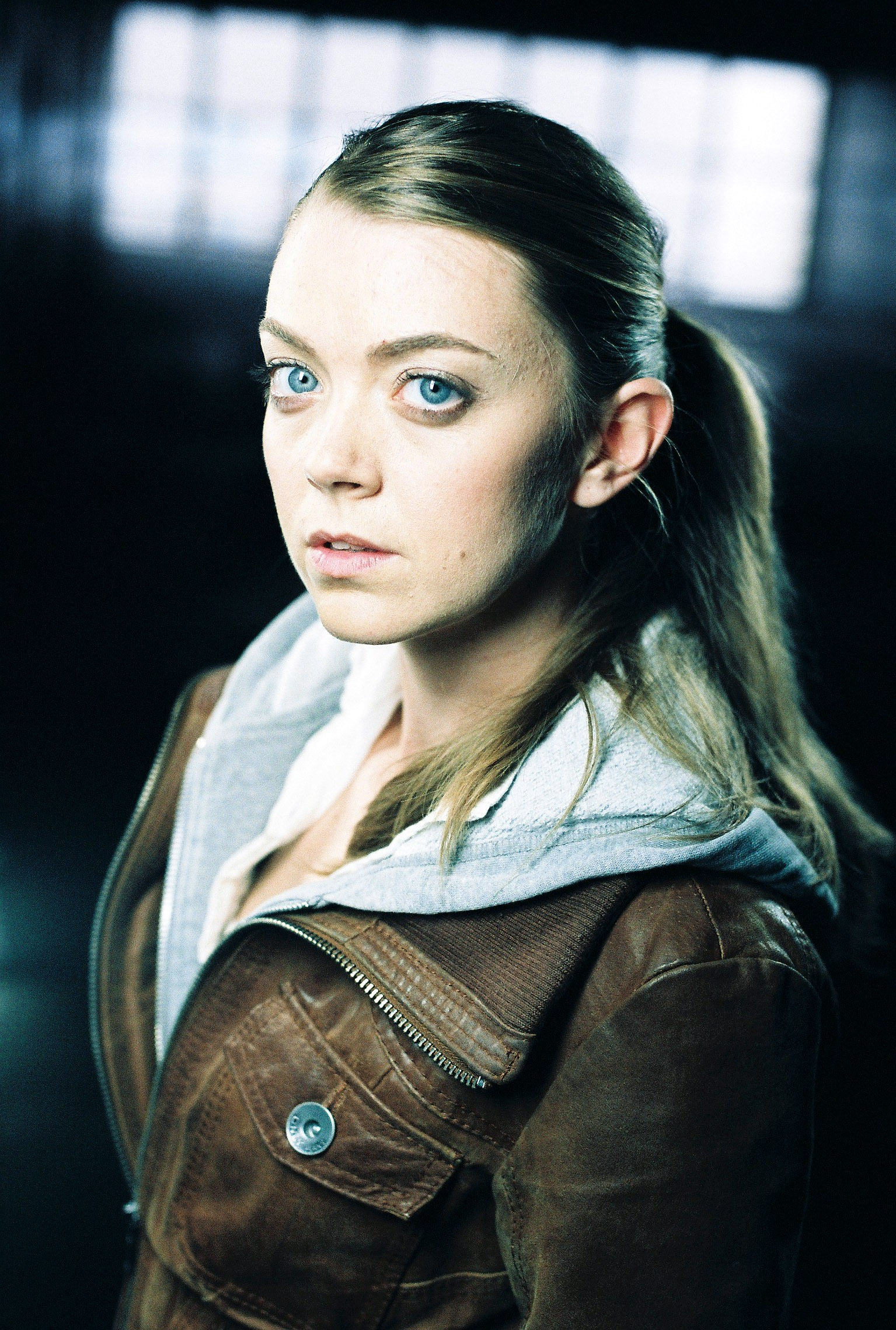 Kerstin Kramer, german actress